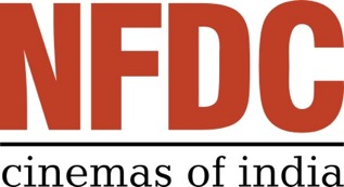 Official Company Logo of the National Film Development Corporation Ltd., India